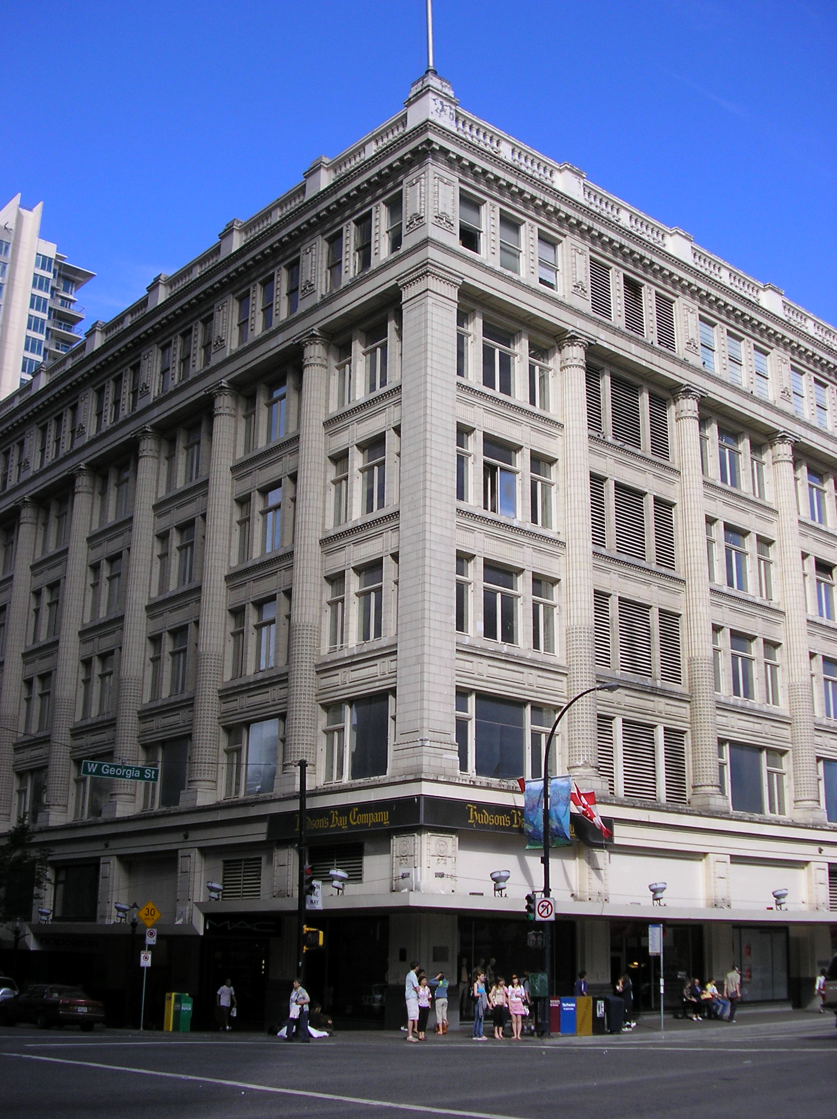 The Bay department store in Vancouver, Canada. Built in 1913, 1926 at Granville & West Georgia Street. This neoclassic style can be found at other Hudson's Bay stores in other Canadian cities.